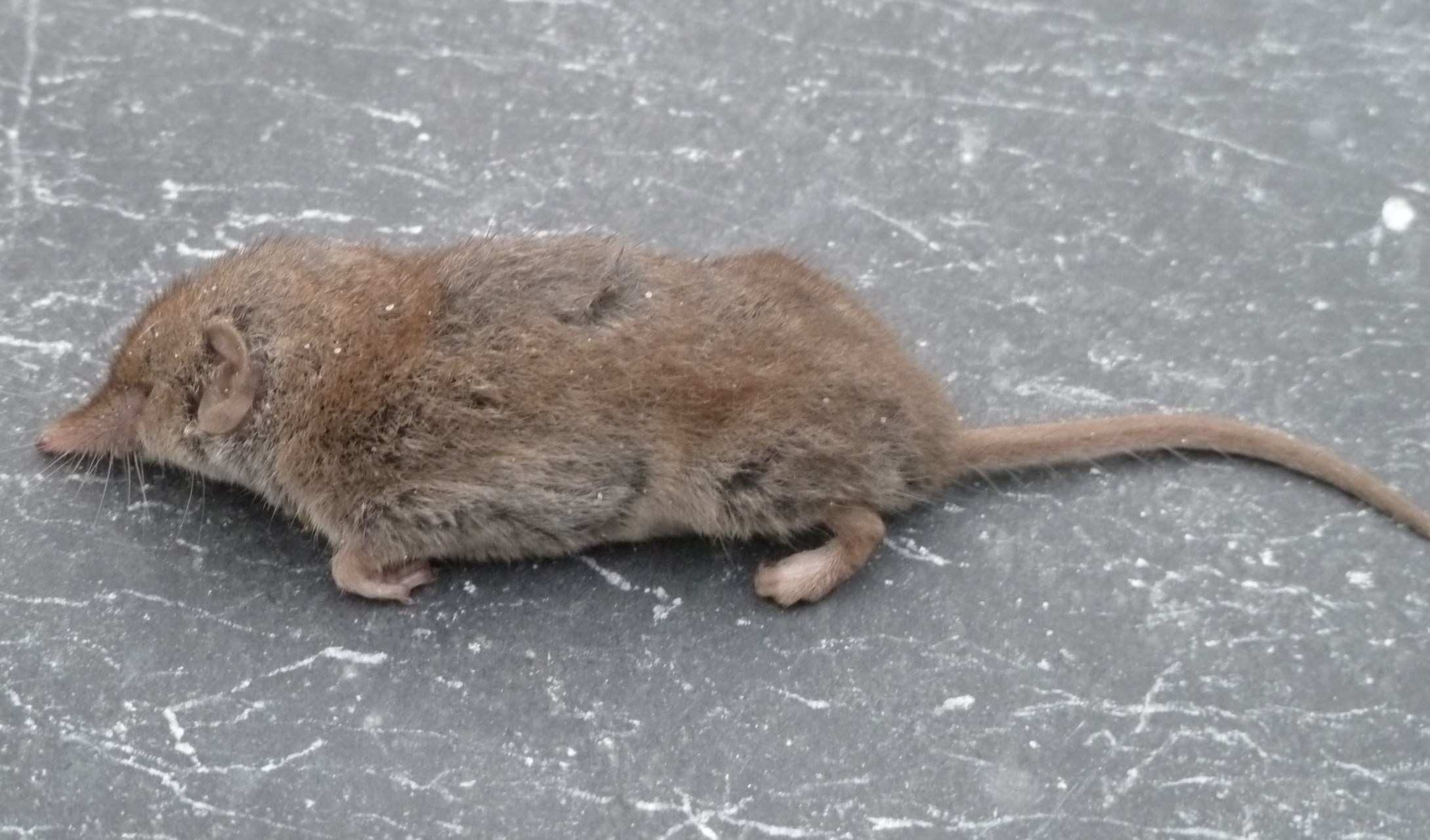 Crocidura russula; body length : 65 mm; length of the tail : 40 mm; Belgium